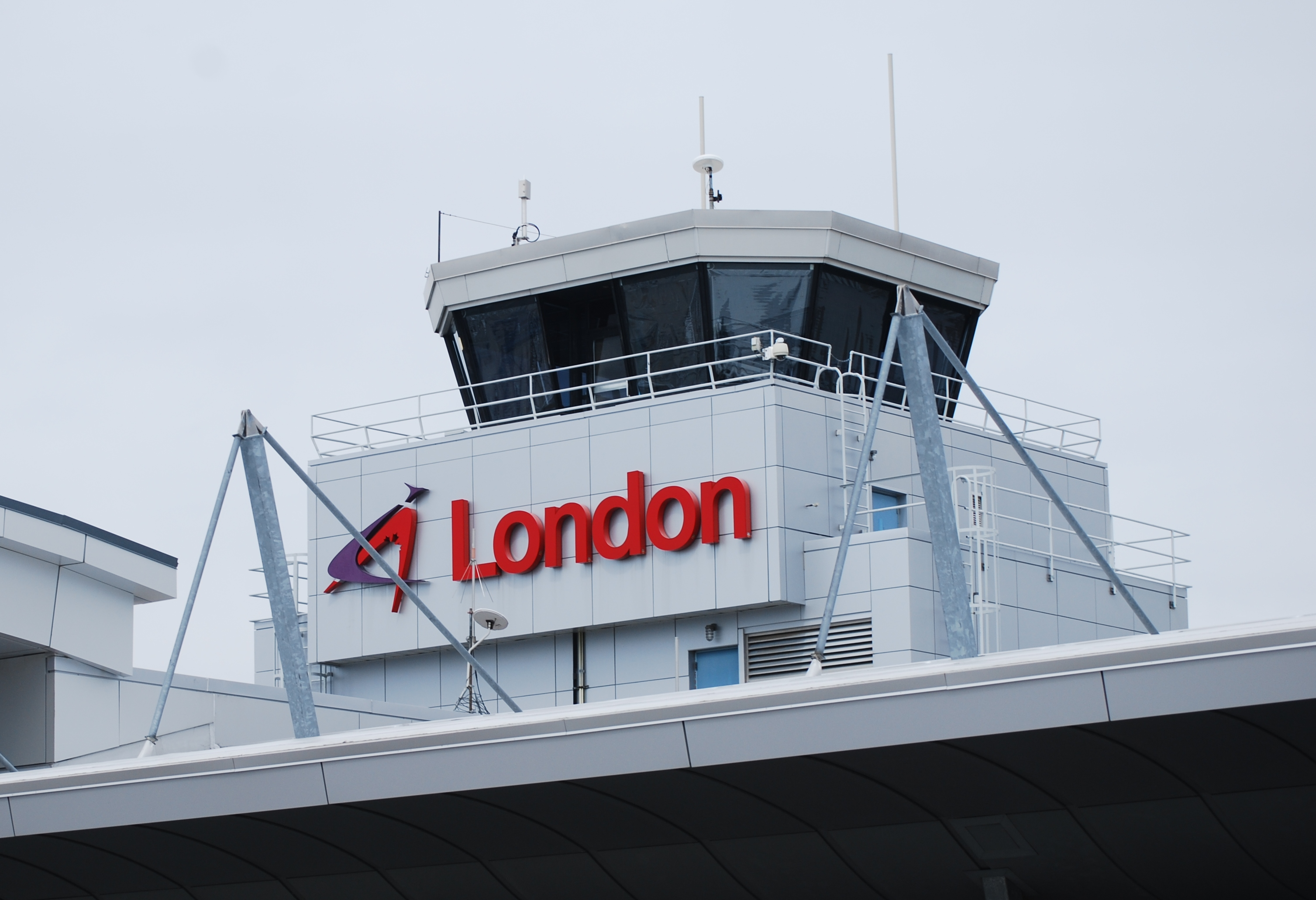 Control tower at London International Airport (IATA: YXU, ICAO: CYXU), in London, Ontario, Canada.